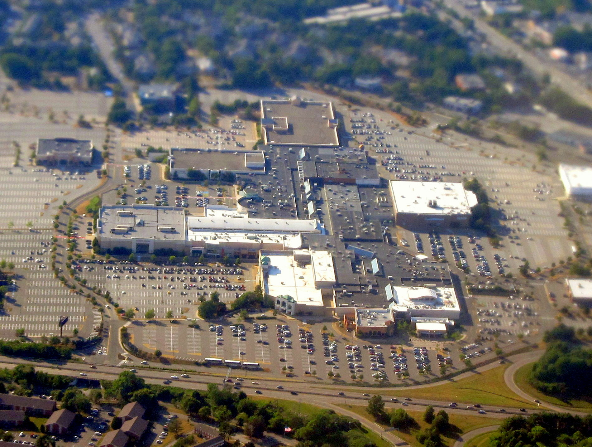 Aerial view of the Northshore Mall and surrounding areas in July 2016